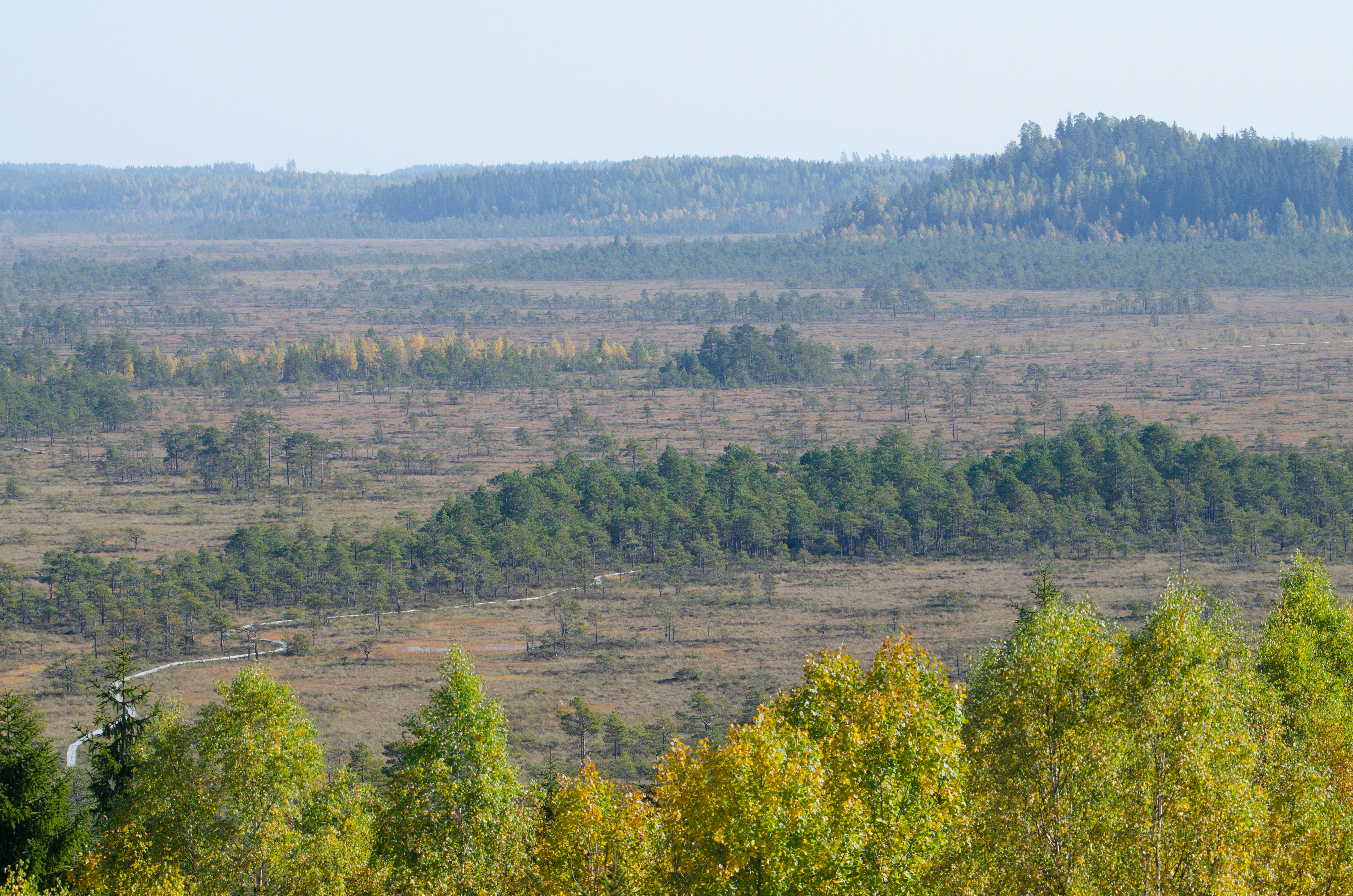 Torronsuo National Park - Kiljamo Scenic Tower. Nice view from Kiljamo scenic tower. I used Tamron 150-600mm to be able to see more details. Kiljamo scenic tower, Torronsuo National Park, Tammela, Finland. 25.9.2017